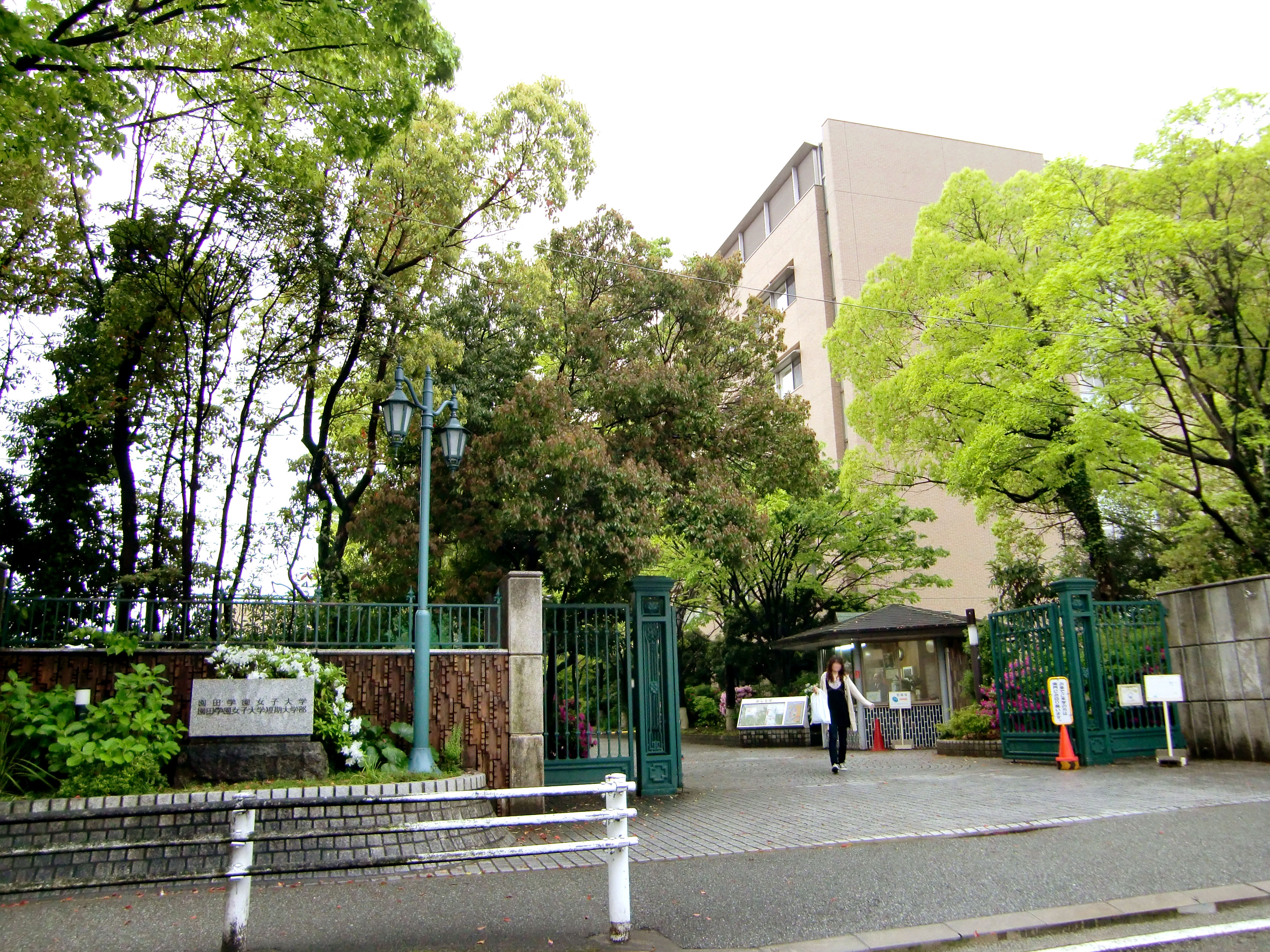 Sonoda Women's University,7-29-1 Minami-Tsukaguchicho Amagasaki-City Hyogo JAPAN.